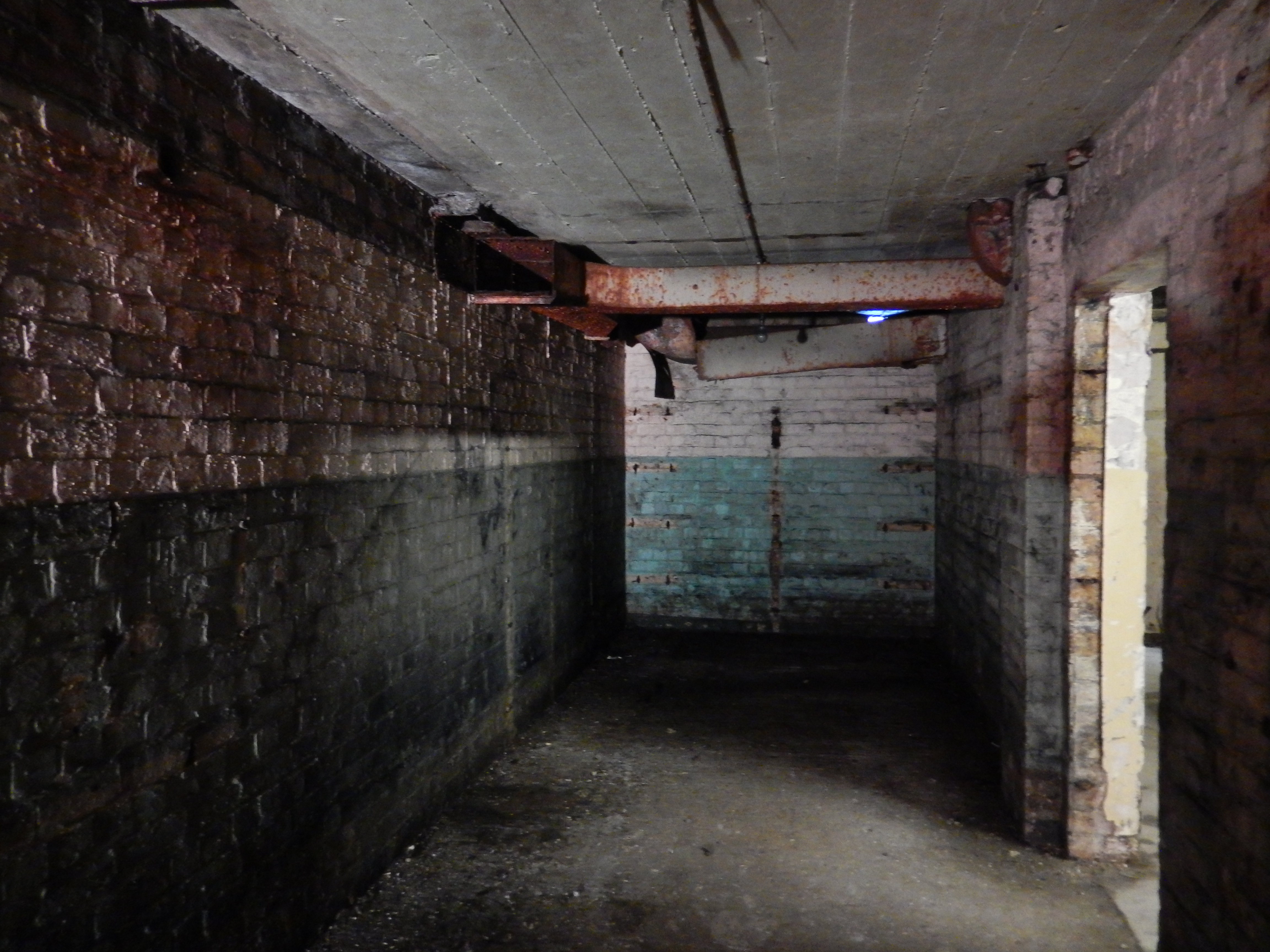 Inside Barnton Quarry Bunker, open to visitors for Doors Open Day.